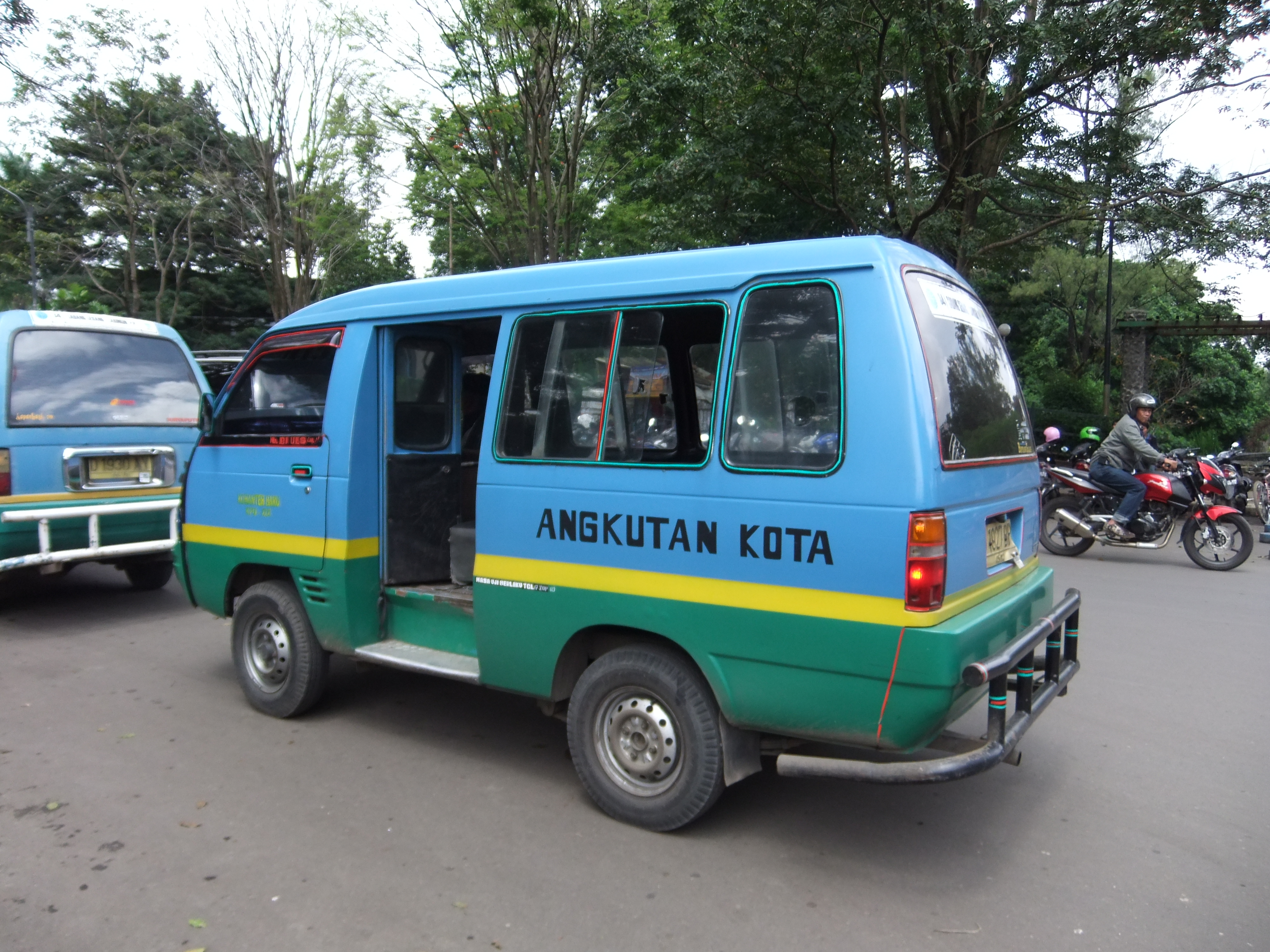 Angkot (public minivan) in Bandung, on the route Sadang Serang - Terminal Caringin. Photo taken near ITB campus.